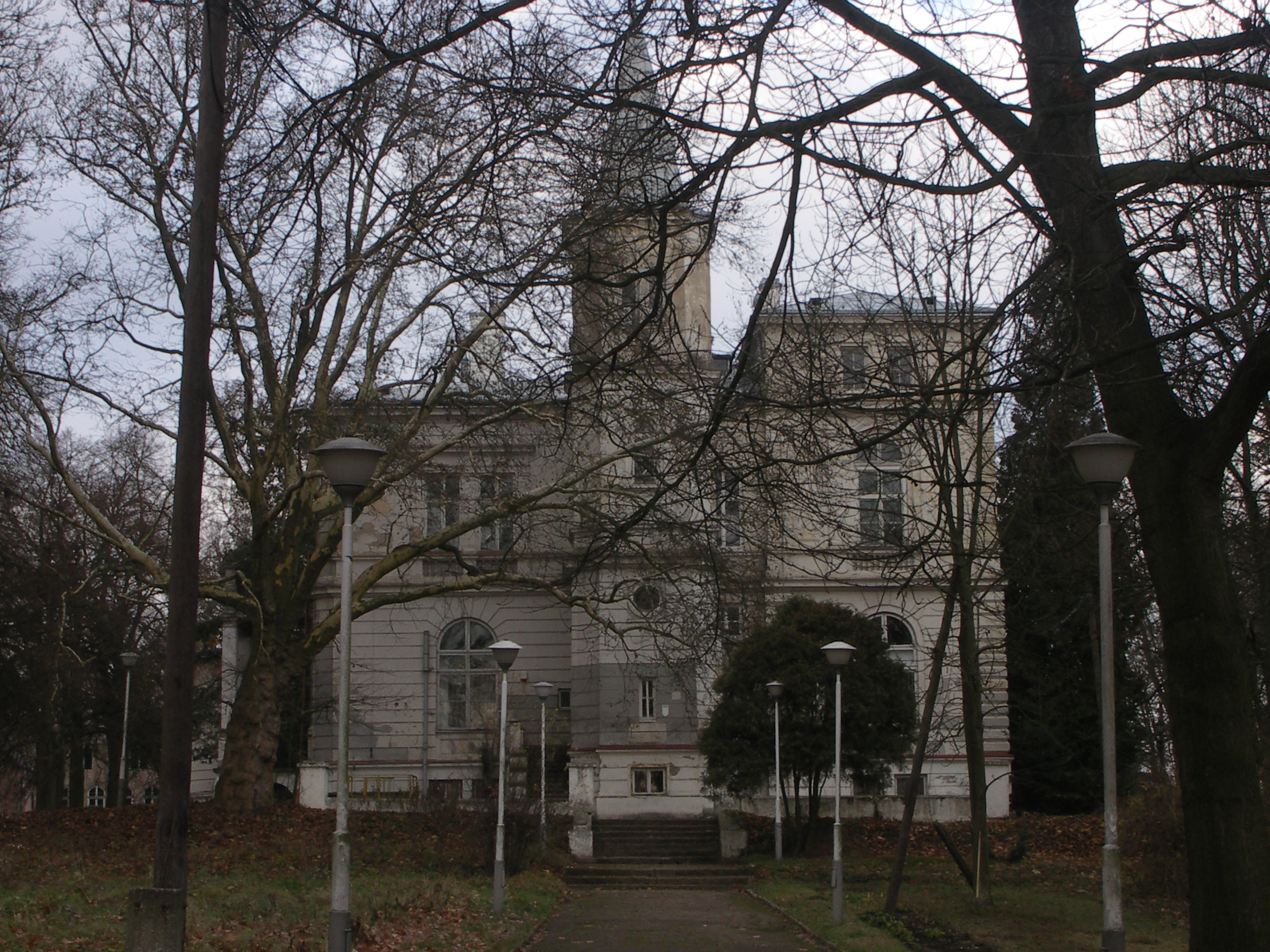 Kronenbergs' Palace in Wieniec. Built after 1890.